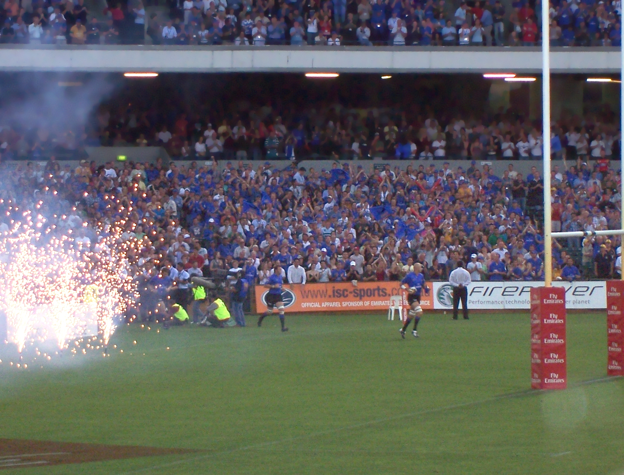 The Western Force running on to the field in their first game.